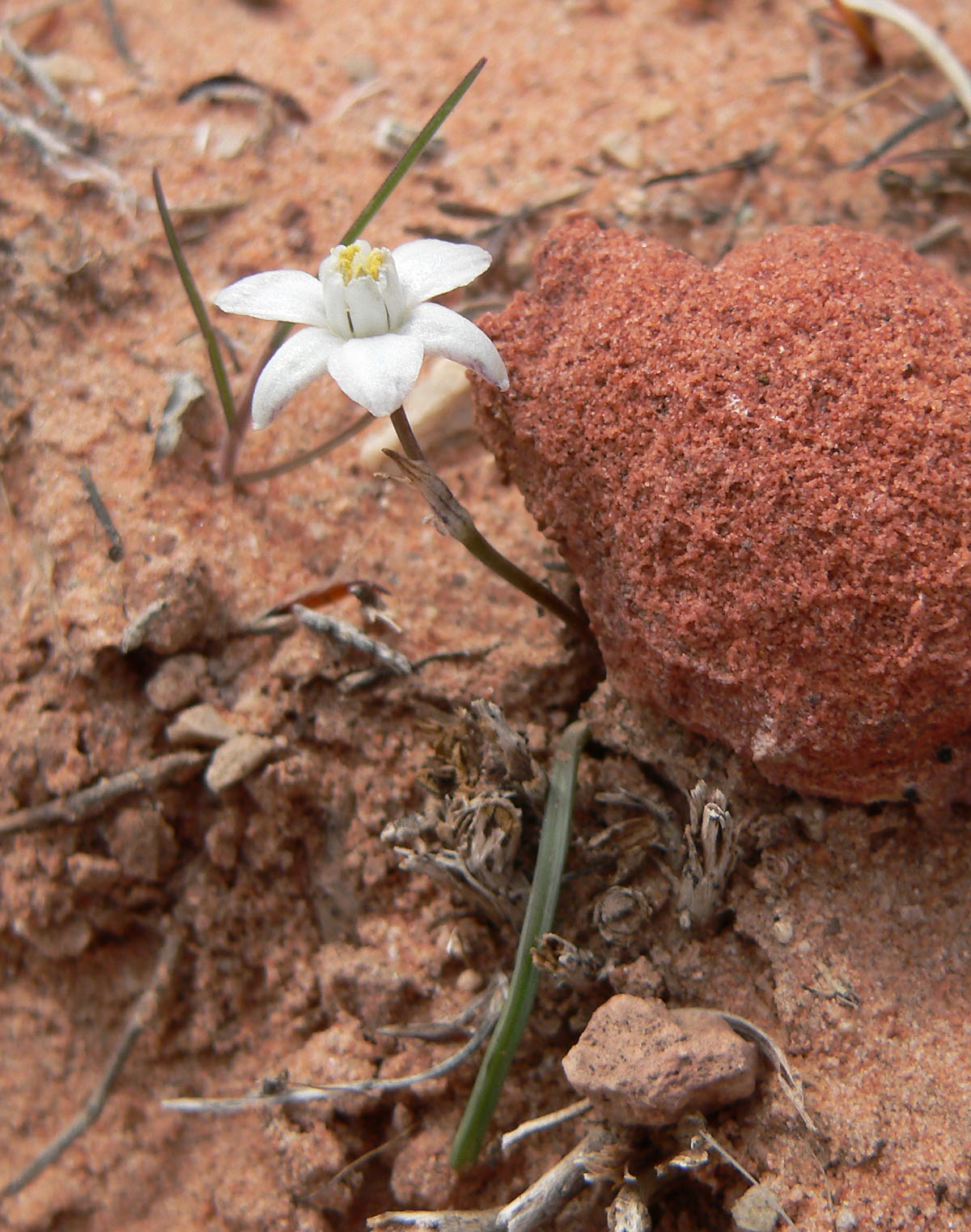 Muilla coronata on a sandy slope just north of the Red Spring parking lot, in Calico Basin, west of Las Vegas, Nevada